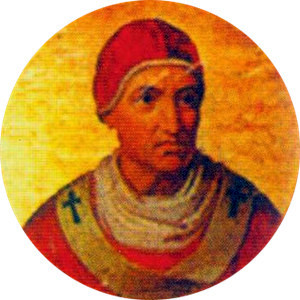 Portait of Pope Urban III in the Basilica of Saint Paul Outside the Walls, Rome